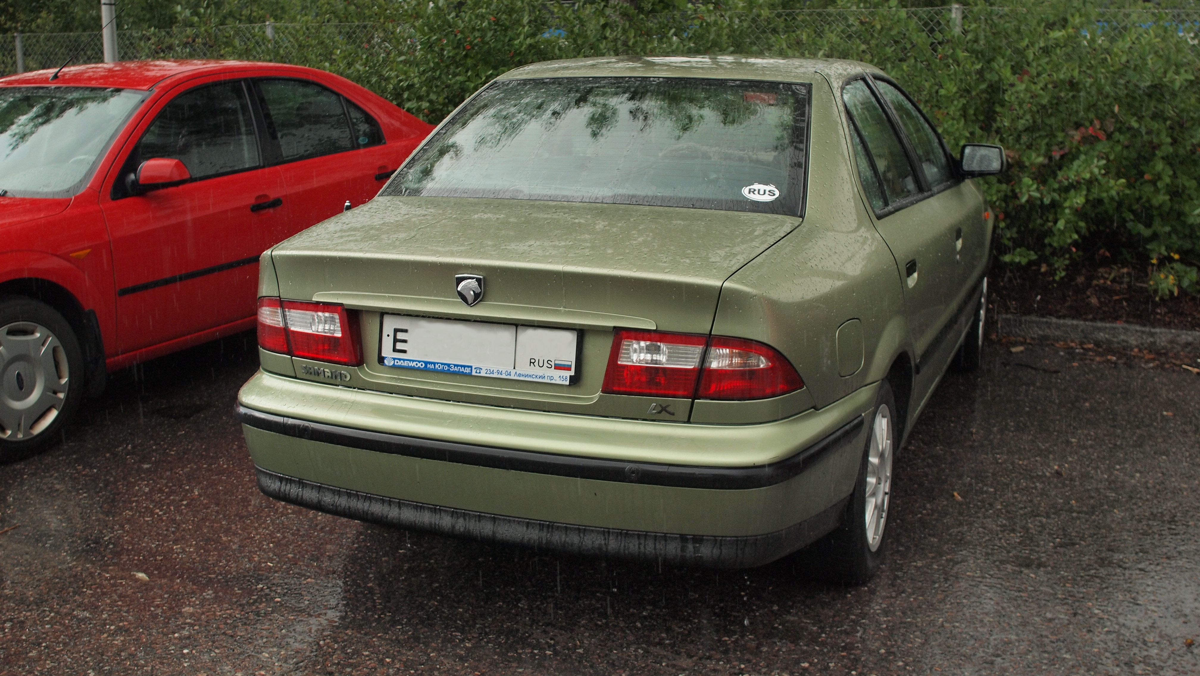 Samand LX with Russian licence plates in Vantaa, Finland.